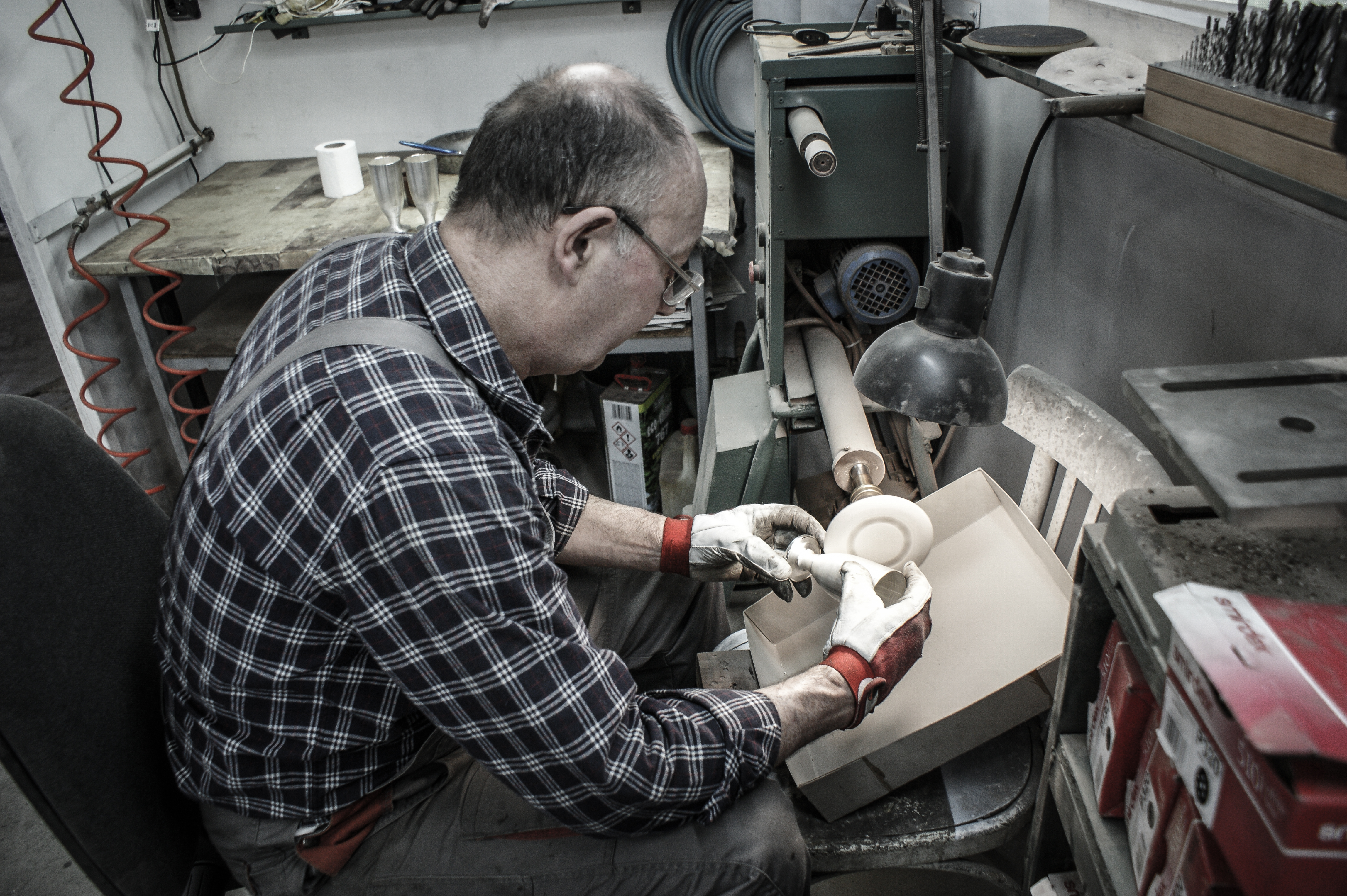 Zografov Studio